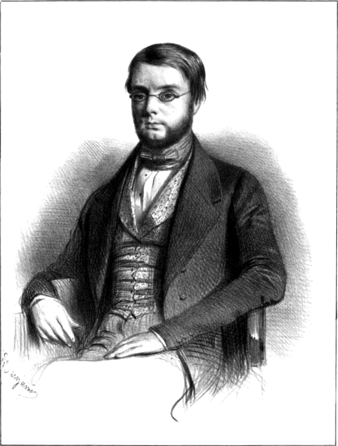 Drawing of Augustin Théodore de Lauzanne de Vauroussel (1805-1877), French playwright